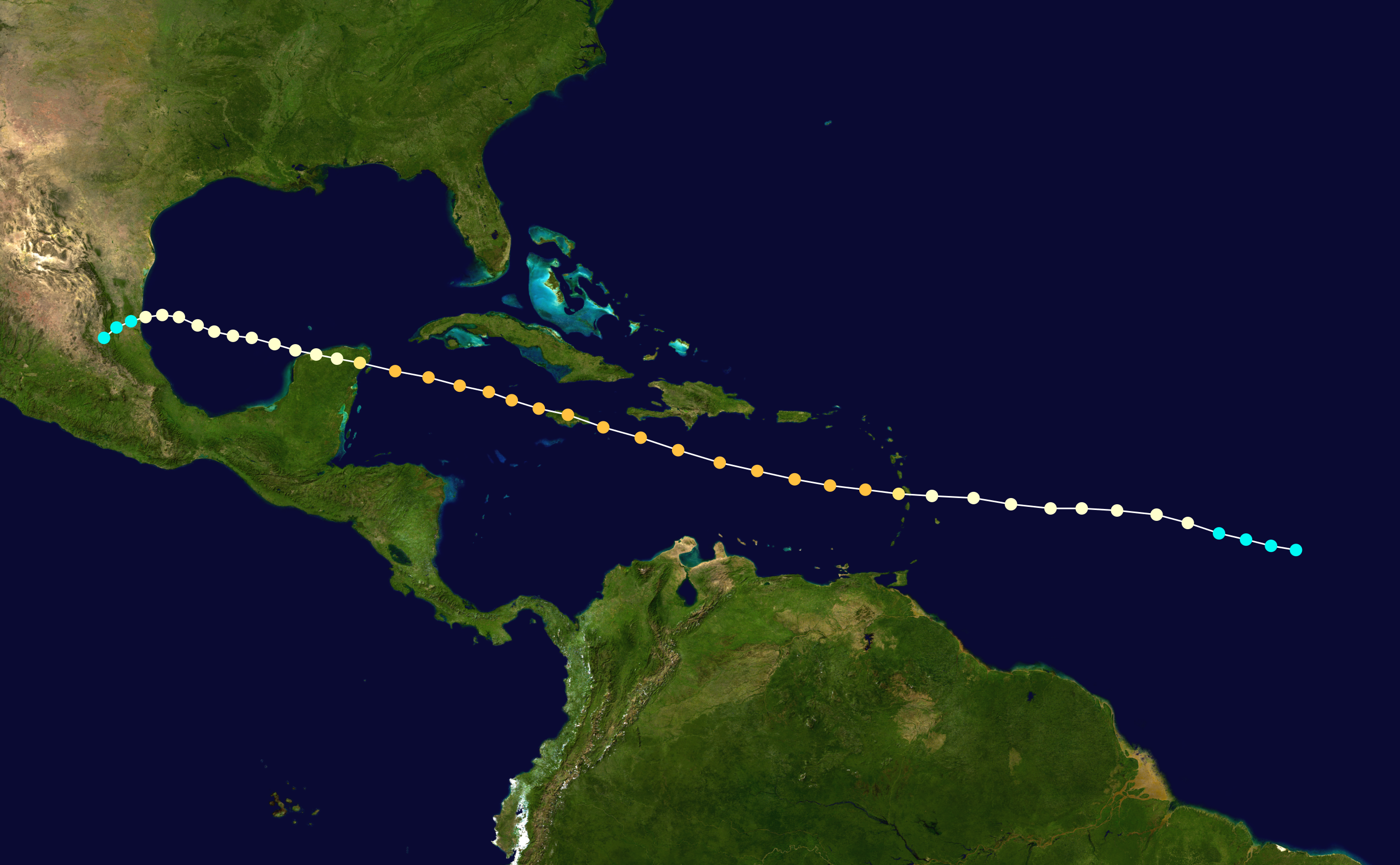 Track map of 1903 Jamaica hurricane of the 1903 Atlantic hurricane season. The points show the location of the storm at 6-hour intervals. The colour represents the storm's maximum sustained wind speeds as classified in the Saffir–Simpson scale (see below), and the shape of the data points represent the nature of the storm, according to the legend below. Saffir–Simpson scale Tropical depression≤38 mph≤62 km/h Category 3111–129 mph178–208 km/h Tropical storm39–73 mph63–118 km/h Category 4130–156 mph209–251 km/h Category 174–95 mph119–153 km/h Category 5≥157 mph≥252 km/h Category 296–110 mph154–177 km/h Unknown Storm type Tropical cyclone Subtropical cyclone Extratropical cyclone / Remnant low / Tropical disturbance / Monsoon depression